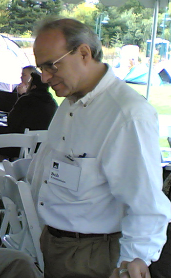 Bob Frankston, co-creator with Dan Bricklin of the VisiCalc spreadsheet program and the co-founder of Software Arts.